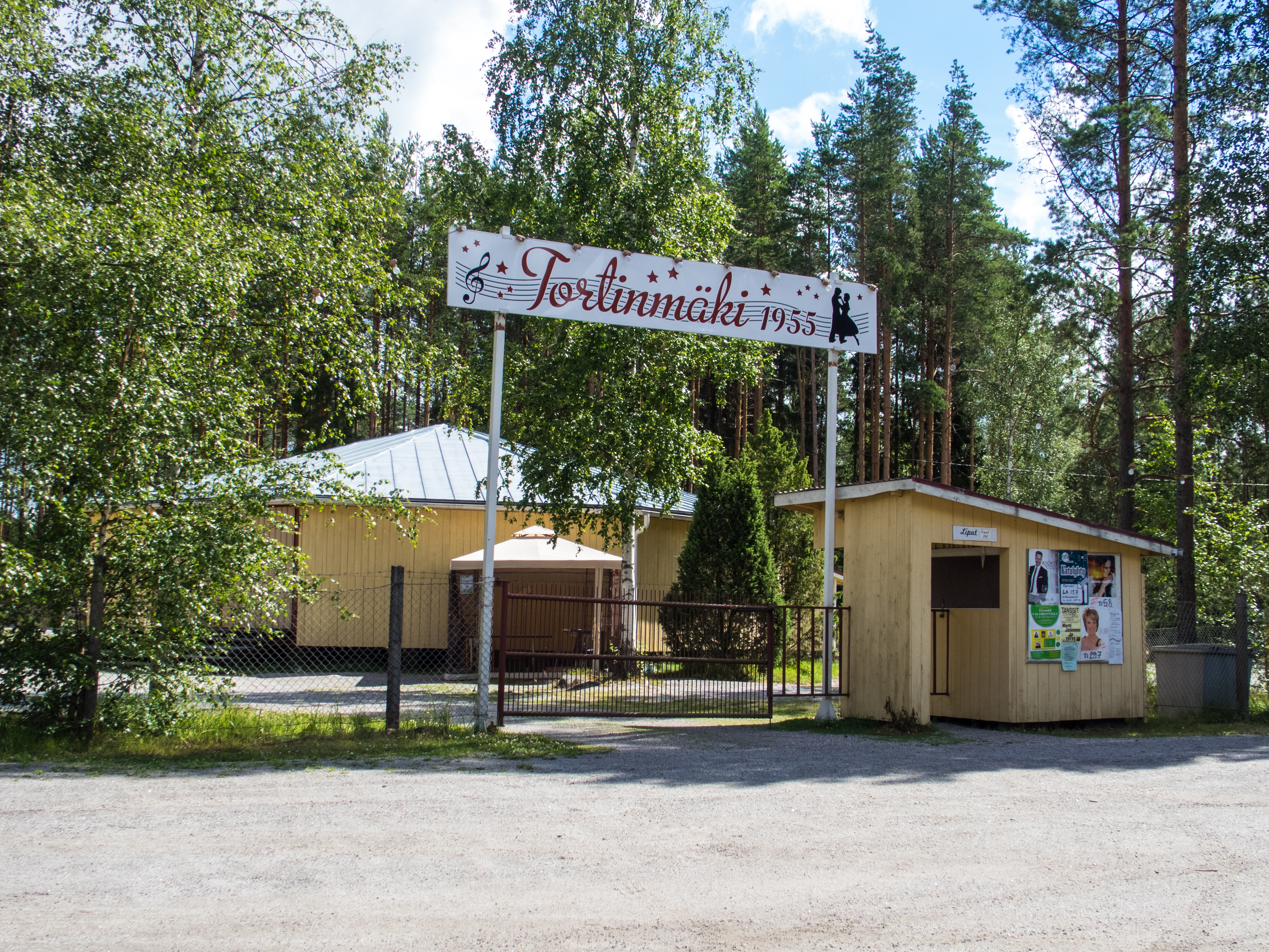 Dance hall in Tortinmäki, the northernmost suburb of Turku, Finland. July 2014.